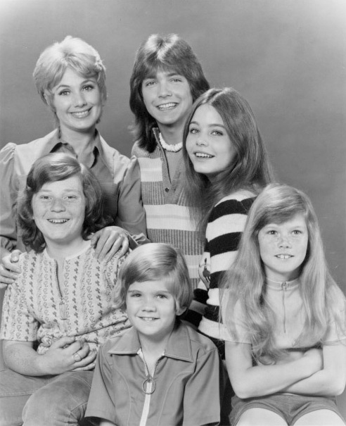 Publicity photo of television actors, (Clockwise from top) David Cassidy, Susan Dey, Suzanne Crough, Brian Forster, Danny Bonaduce and Shirley Jones promoting the ABC comedy series The Partridge Family, circa 1972.